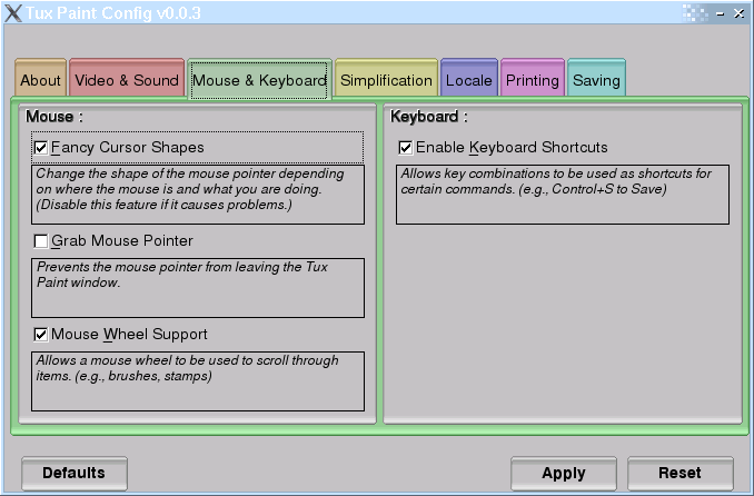 A screenshot of Tux Paint Config., a graphical (FTLK-based) configuration tool for setting options in Tux Paint. Screen shows the various option category tabs along the top, with "Mouse & Keyboard" currently chosen. Options include enabling or disabling: fancy cursor shapes, grabbing the mouse pointer, mouse wheel support, and keyboard shortcuts.